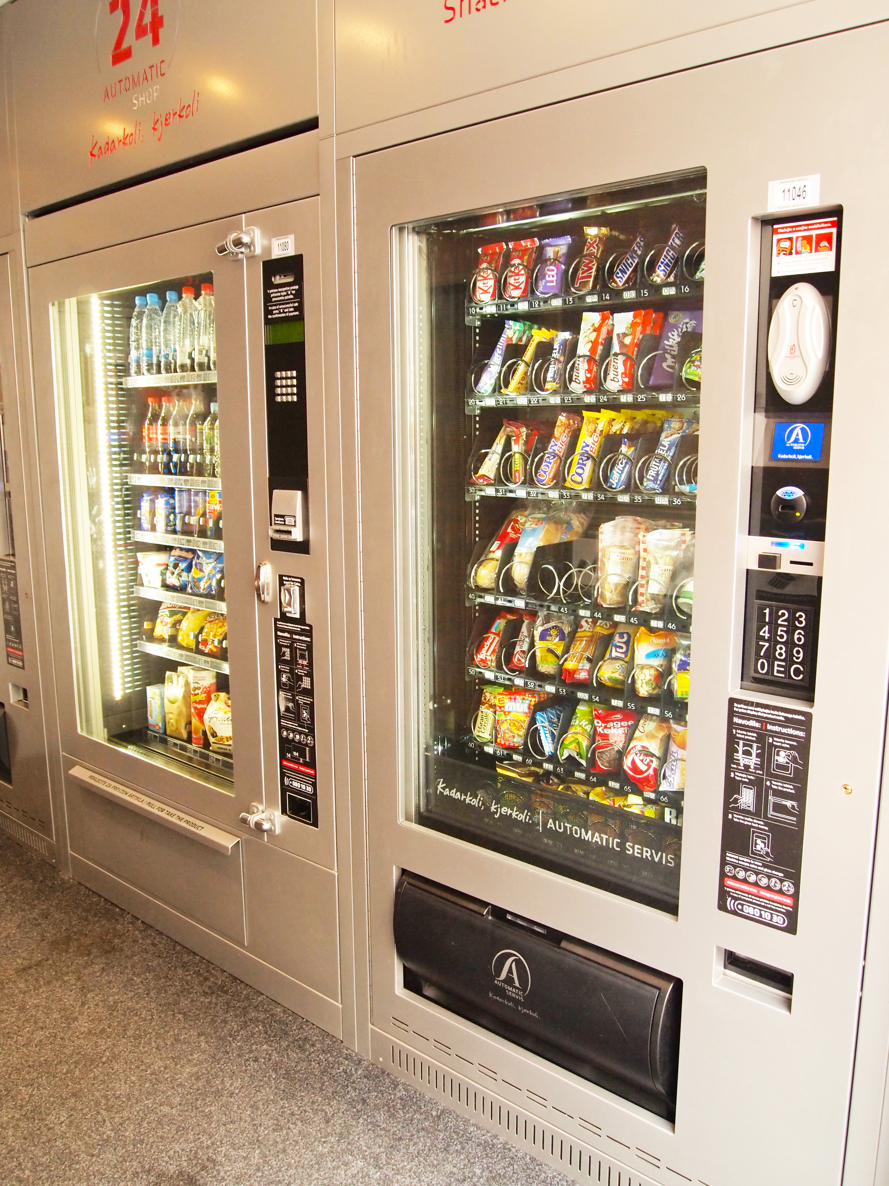 Automatic 24h shop in Ljubljana.